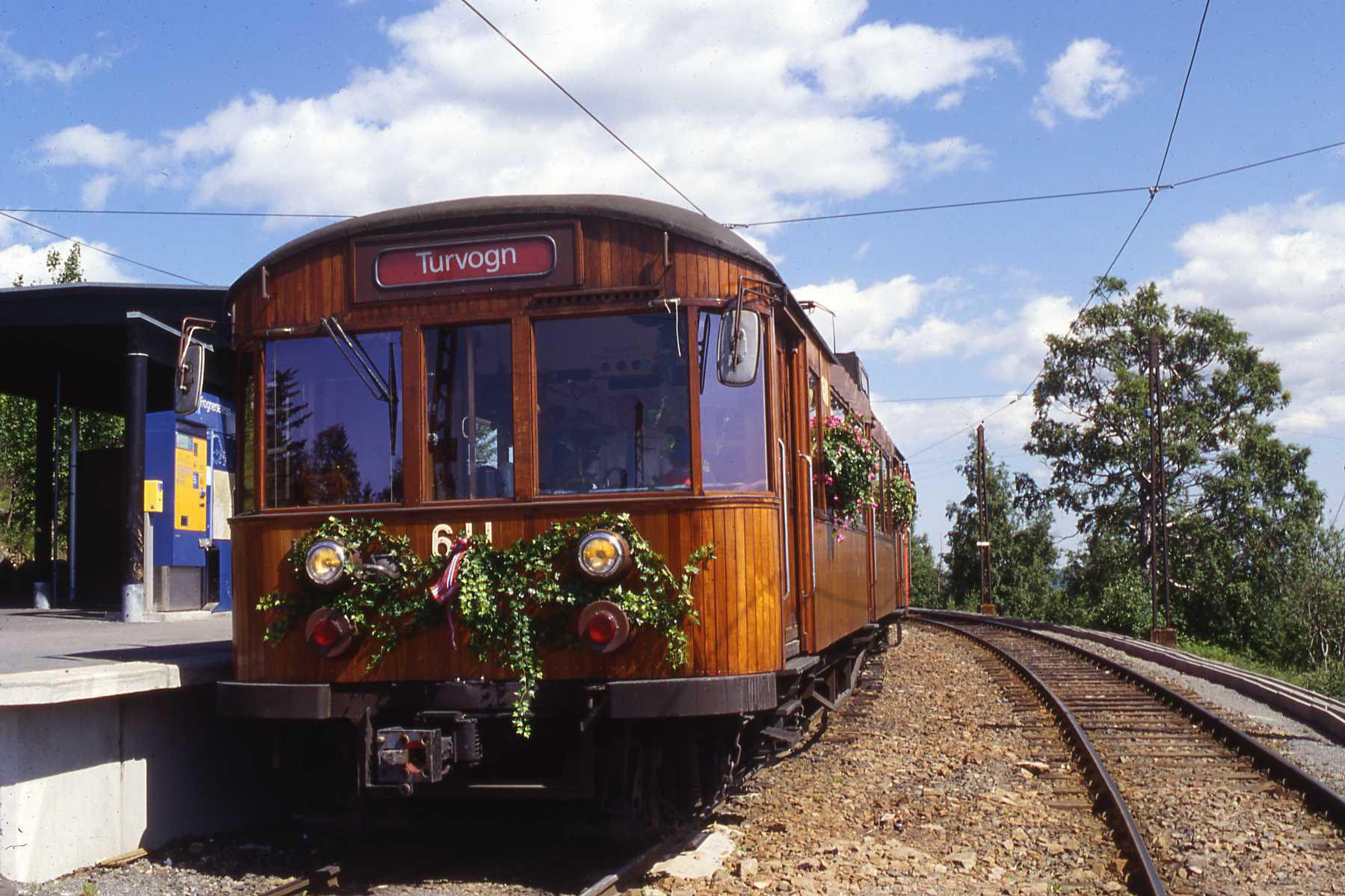 A wooden car (611, from the HKB 600 series) on the Holmenkollbanen in Oslo. The car is decorated because it is officialy the last day of service for the wooden cars.